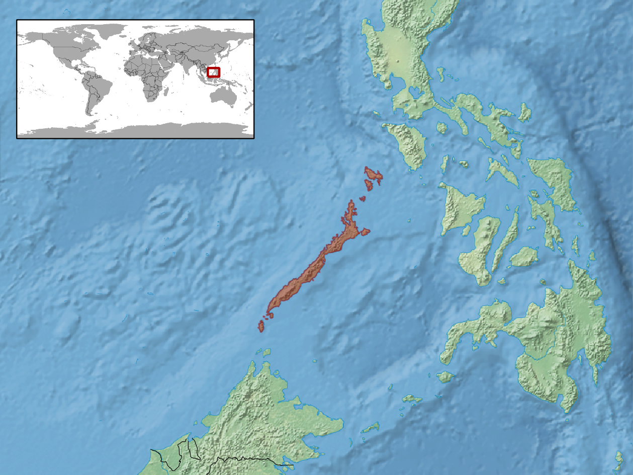 geographic distribution of Trimeresurus schultzei (Native: Philippines)